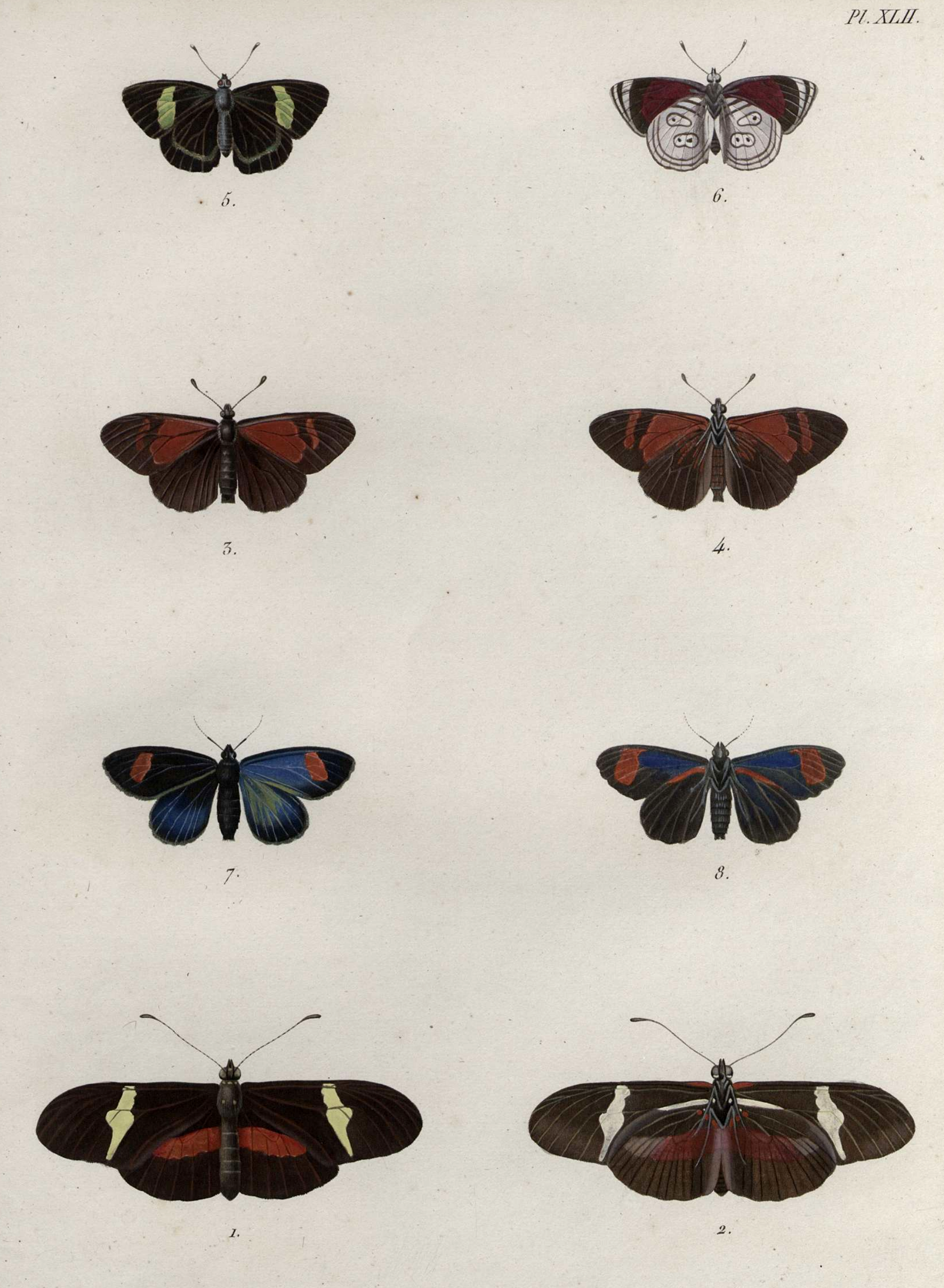 Fig. 1/2. Heliconius clysonymus. Fig. 3/4. Altinote dicaeus. (Syn. Heliconius dicaeus) Fig. 5/6. Diaethria euclides. (Syn. Erycina euclides) Fig. 7/8. Callimorpha bifasciata.